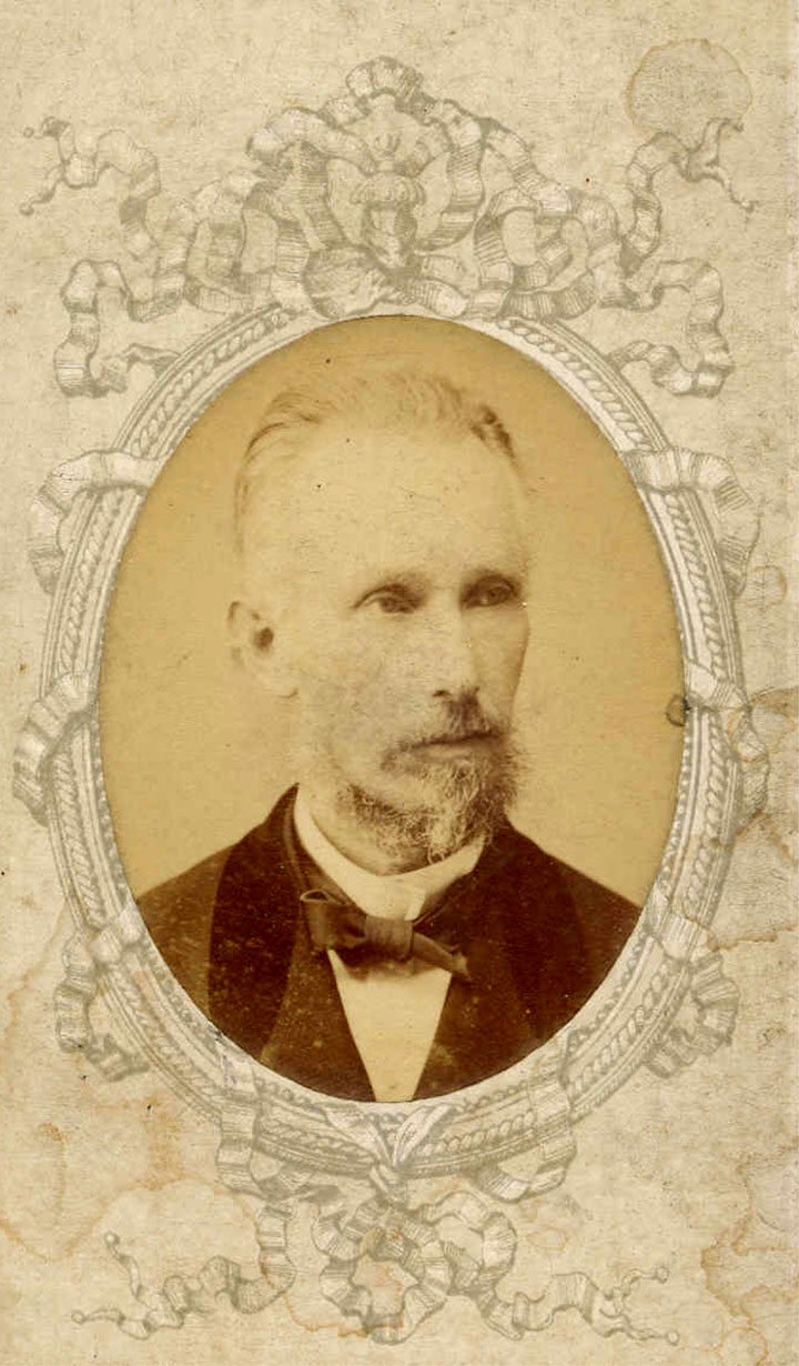 Miguel Samper, Colombian politician